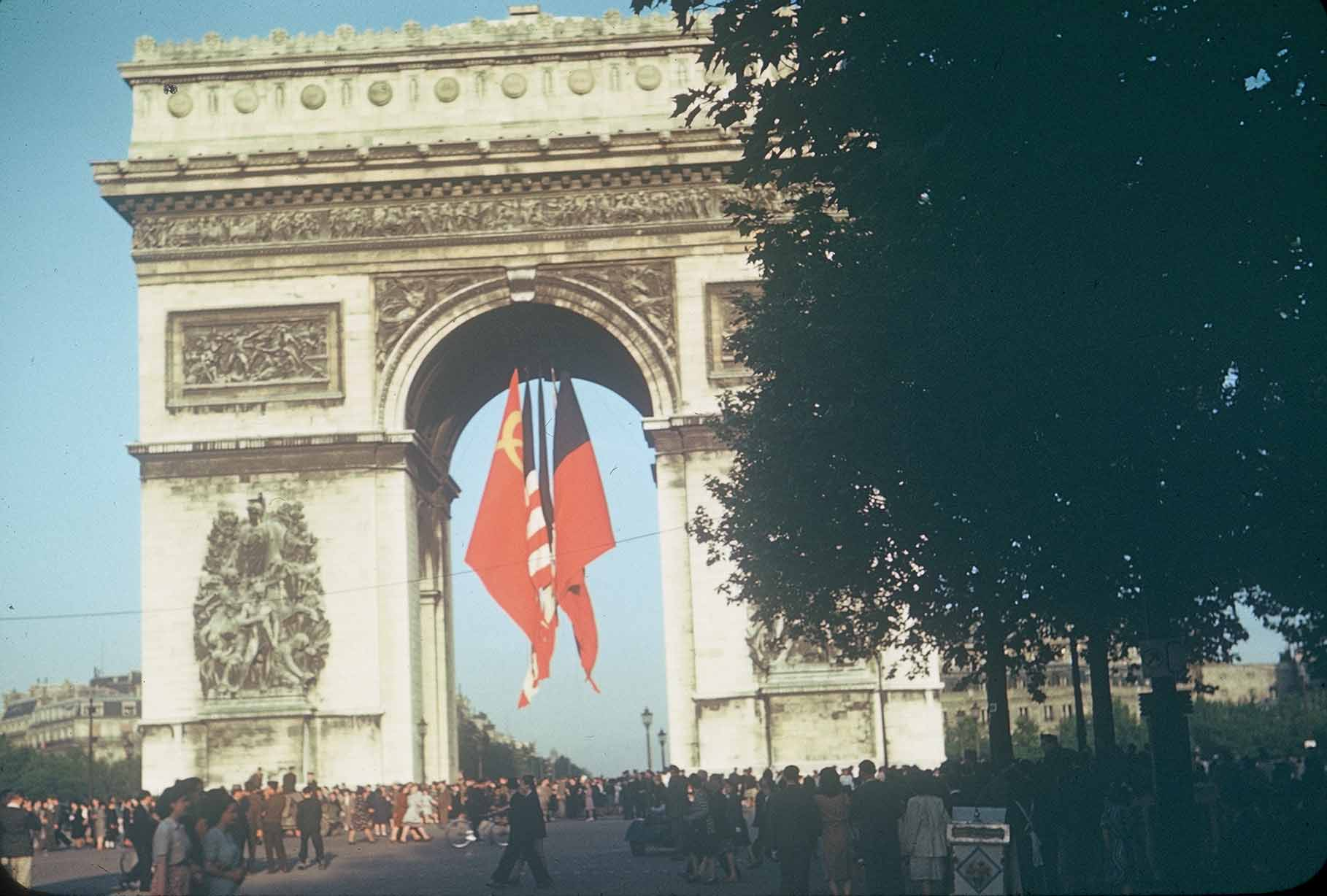 Libération of France D-day at the Arc de Triomphe in Paris. These photographs are from his 400 image slide collection documenting his time in France ; OHA 143.02 Crynes Collection ; Major Sylvester F. Crynes MC was a pathologist with the 217th General Hospital during WWII.